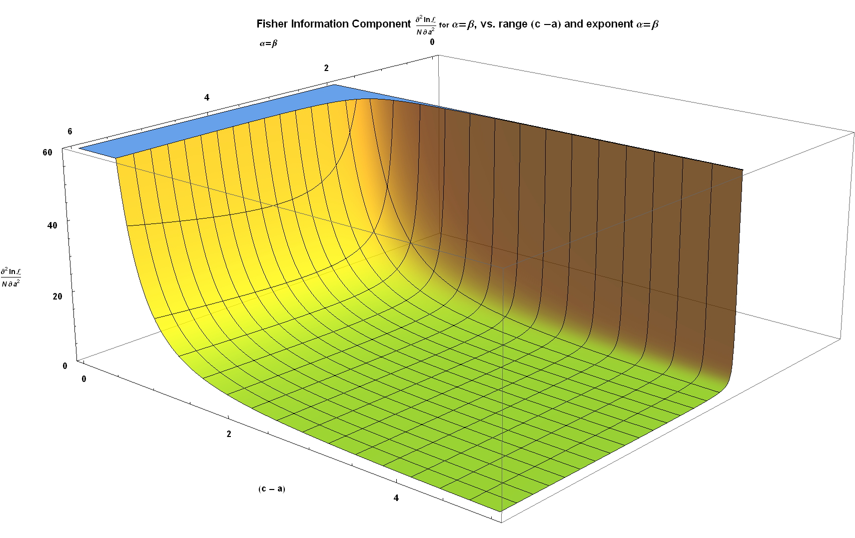 Fisher Information I(a,a) for alpha=beta vs range (c-a) and exponent alpha=beta - J. Rodal